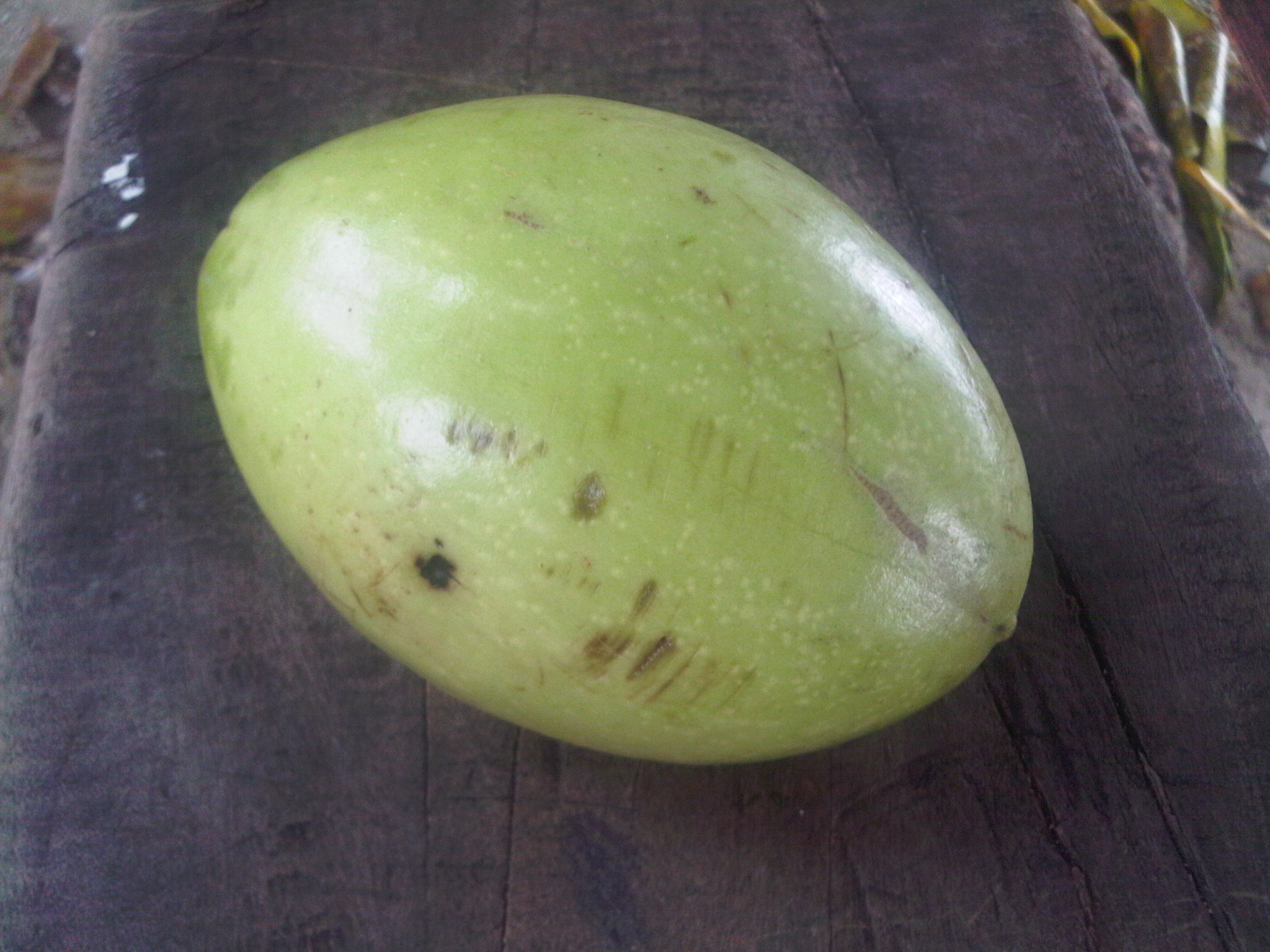 Picture of Cerbera manghas fruit, taken in Pramuka Island, of the Thousand Islands regency, Jakarta, Indonesia.